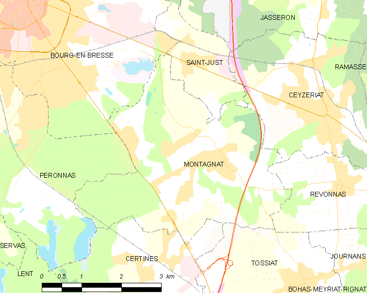 Map of French commune: Montagnat Map commune FR insee code 01254.png